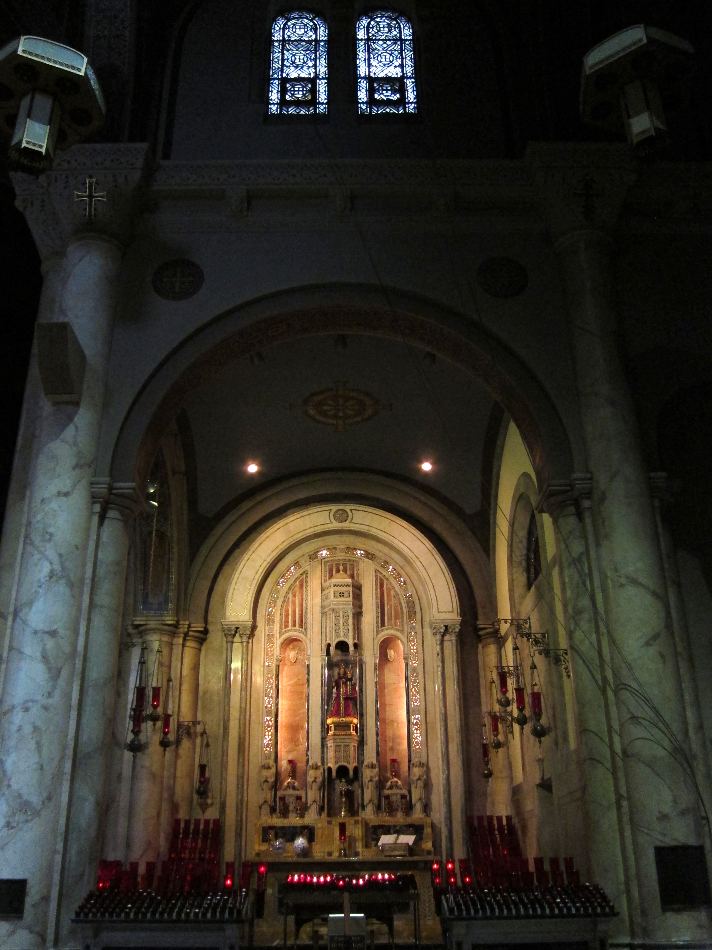 Our Lady of Consolation (Carey, Ohio), interior, Our Lady of Consolation Shrine